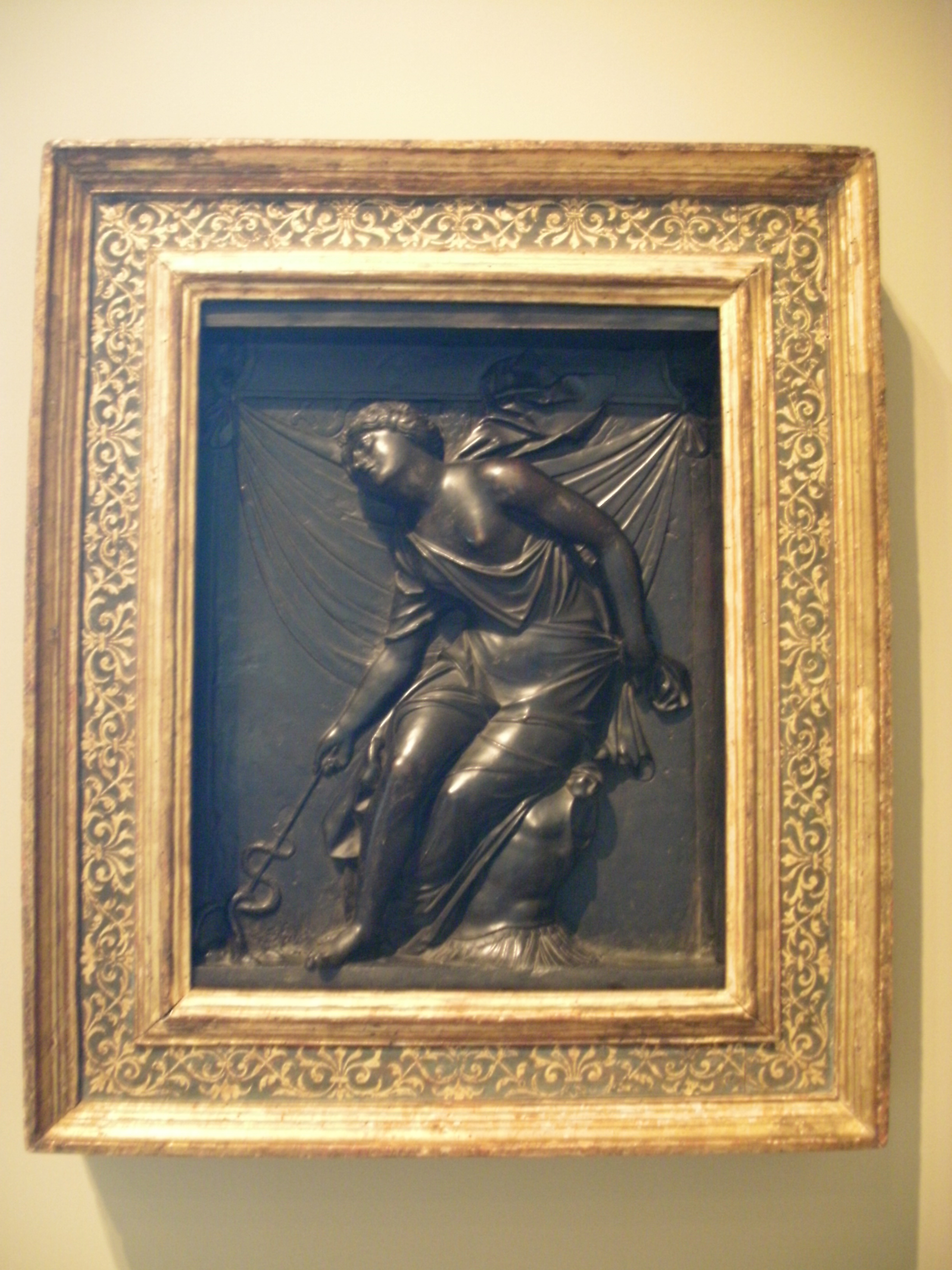 Peace Establishing Her Reign (1512), Washington, National Gallery of Art. Image taken by me for Wikipedia.